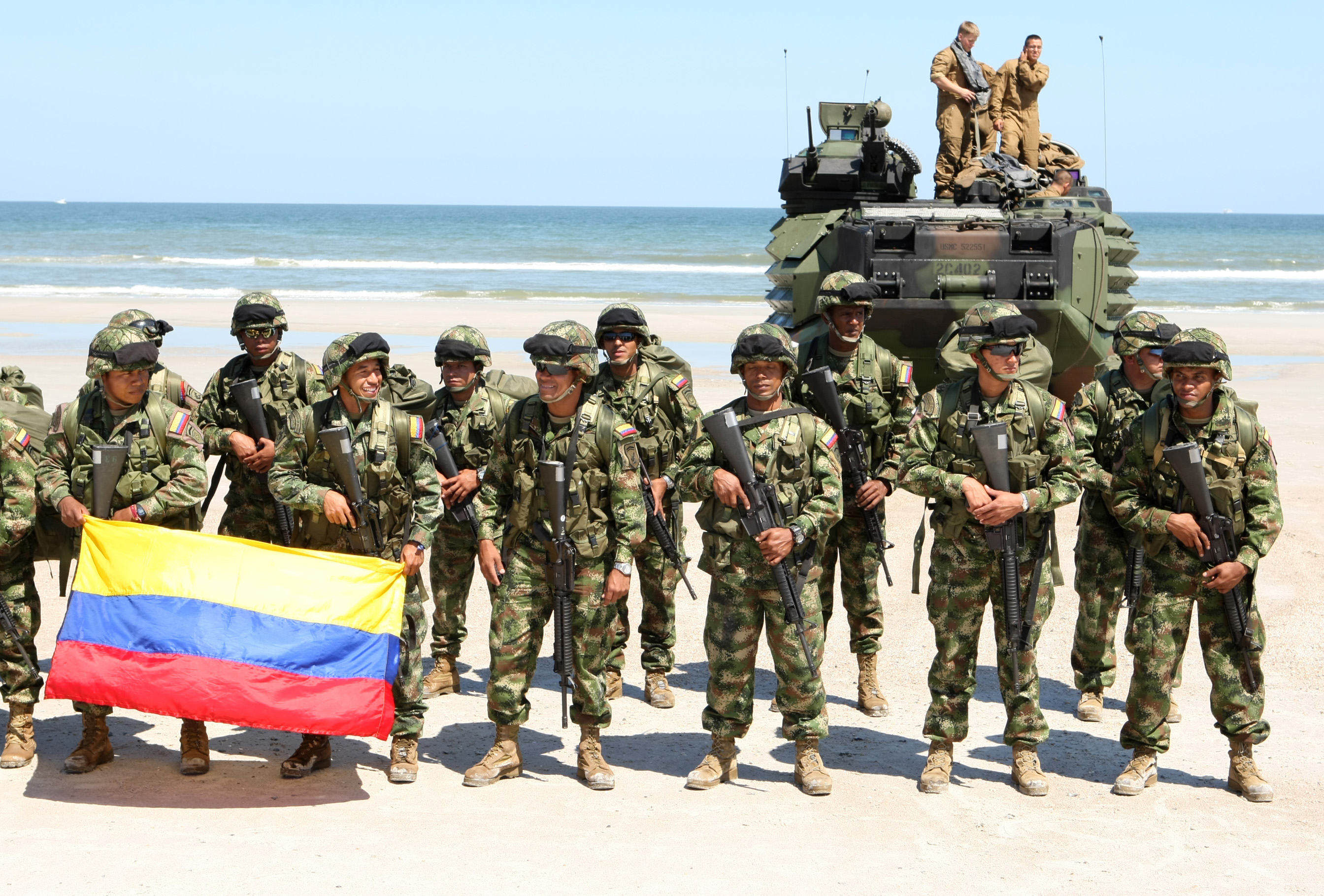 Colombian marines from Special Purpose Marine Air Ground Task Force (SPMAGTF) 24 celebrate April 25, 2009, at Mayport Beach, Fla., after the end of an amphibious demonstration during exercise Partnership of the Americas (POA) 2009. POA, which is being executed simultaneously with UNITAS Gold, is an annual U.S. Marine Corps Forces, South multi-national company-level combined and joint exercise that focuses on enhancing interoperability between U.S. Marines and partner-nation Marines in the areas of amphibious operations, non-combatant evacuation operations (NEO), peacekeeping and disaster relief. UNITAS Gold, a multiservice and multinational exercise is the oldest combined exercise within the Department of Defense. (U.S. Marine Corps photo by Chief Warrant Officer Keith A. Stevenson/Released)